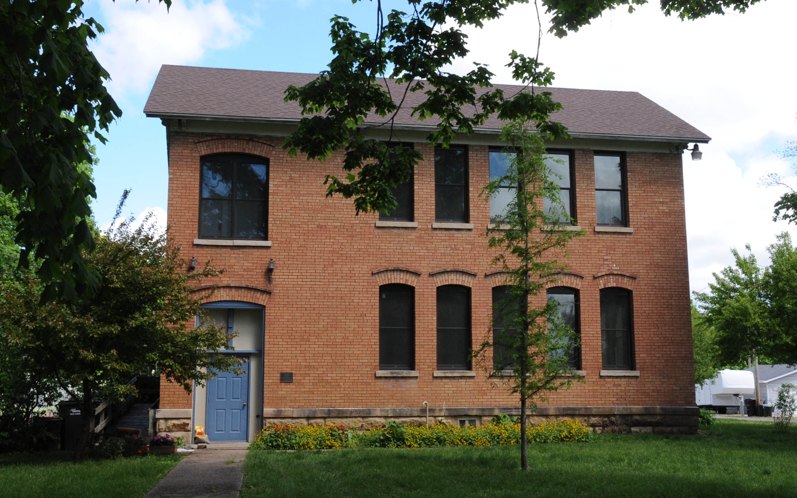 Now known as Old School Museum; built 1871